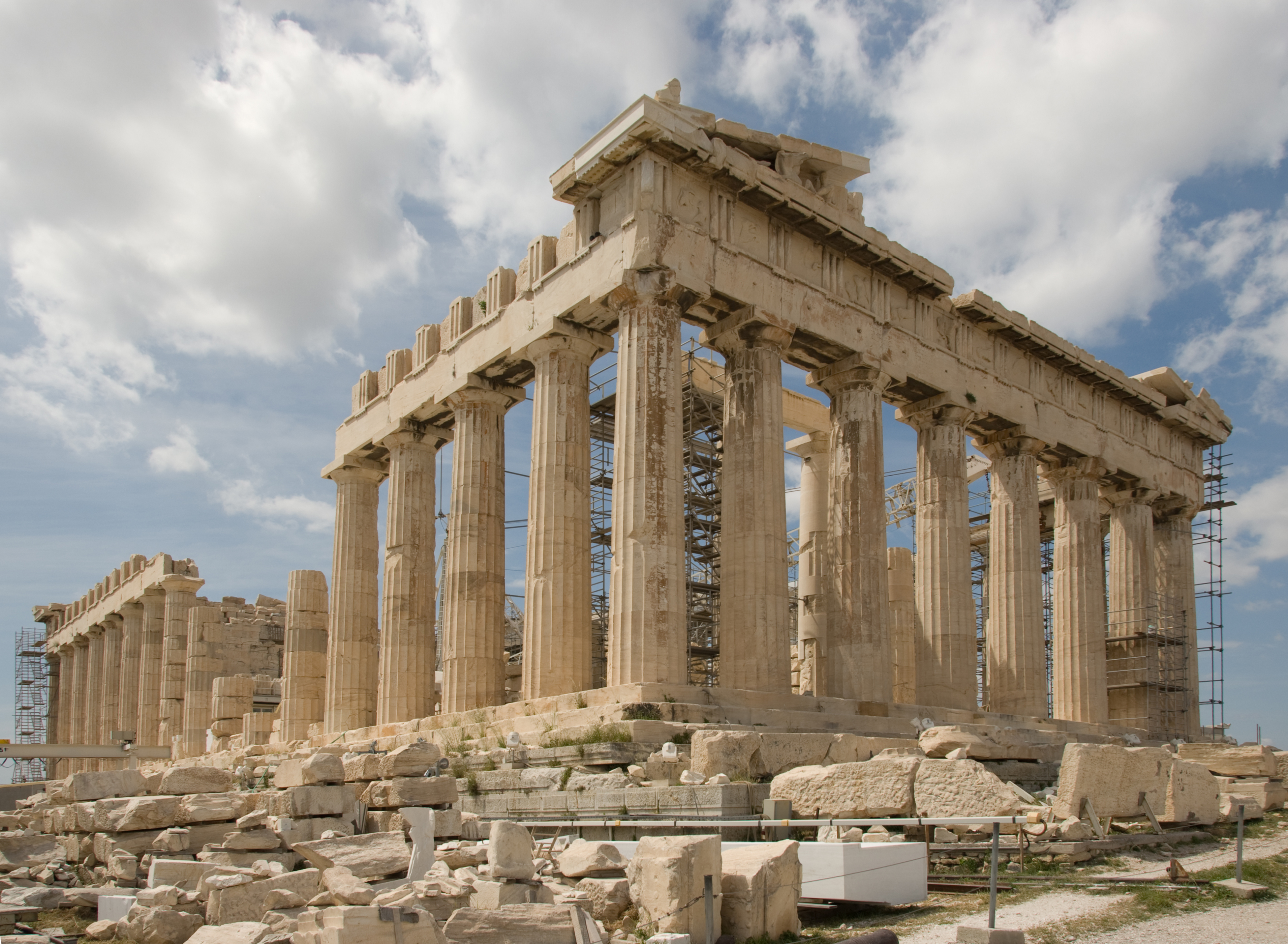 2008 shot of the parthenon, athens, greece